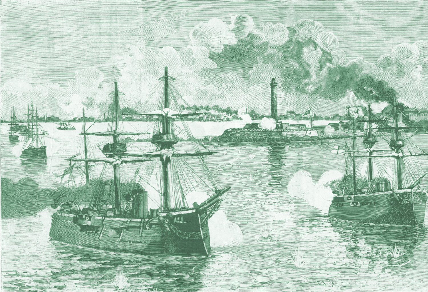 Alexandria, July 11, 1882. The British fleet under the command of Admiral Seymour bombarded the city. Featured warships "Sultan" and "Alexandra".